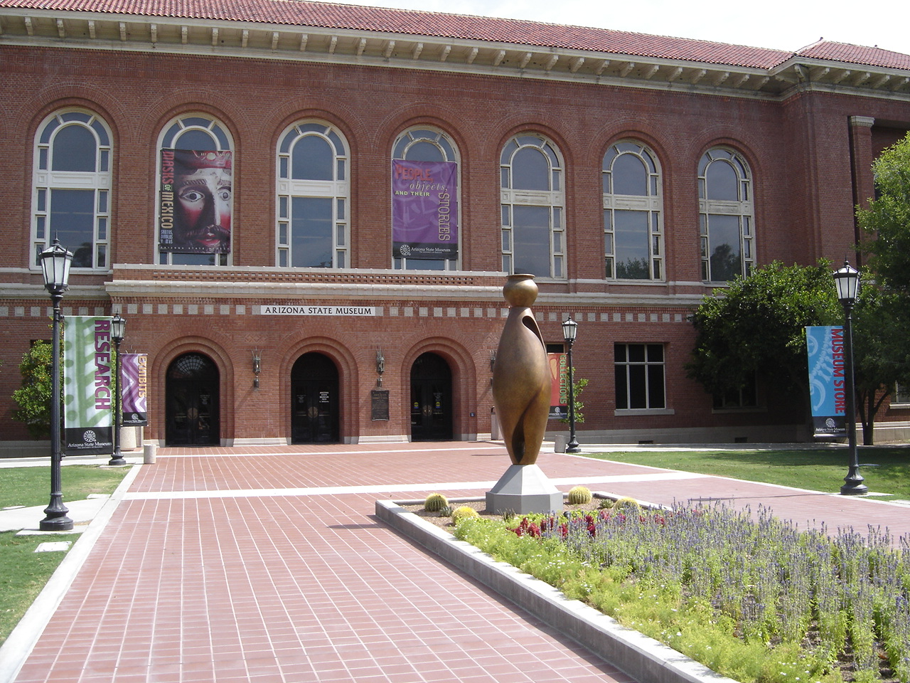 U of A, Tucson